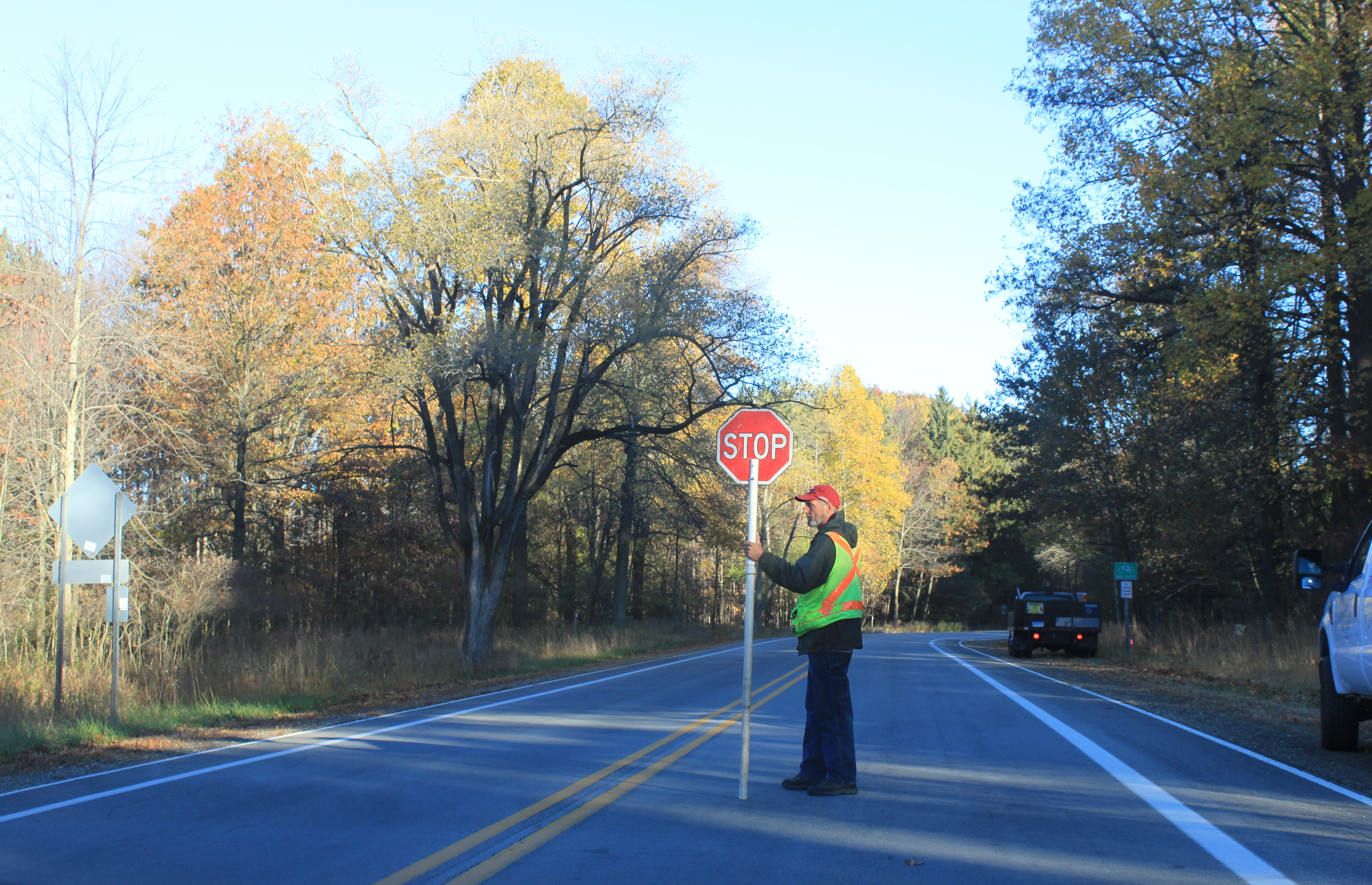 Flagger on M-124, Walter J Hayes State Park, near Brooklyn, Michigan